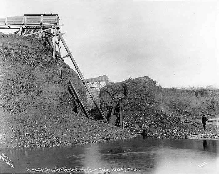 Hydraulic lift on Glacier Creek mining operation, Nome, Alaska, Sep. 27, 1905.